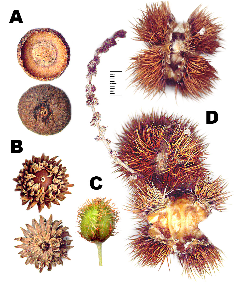 Cupule of Fagacee family representatives: A Quercus rubra, B. Quercus trojana, C. Fagus sylvatica, and D. Castanea sativa.